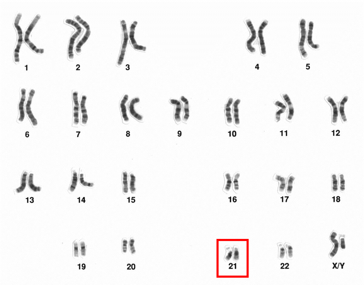 Human male Karyotype after G-banding. Chromosome 21 highlighted